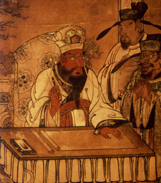 The Great King Enma as depicted in a wallscroll from the Azuchi-Momoyama period found in Nara, Japan.